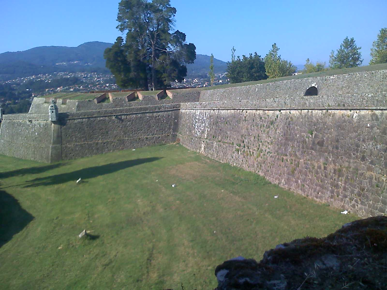 Courtine of the Fortress of Valença, Portugal